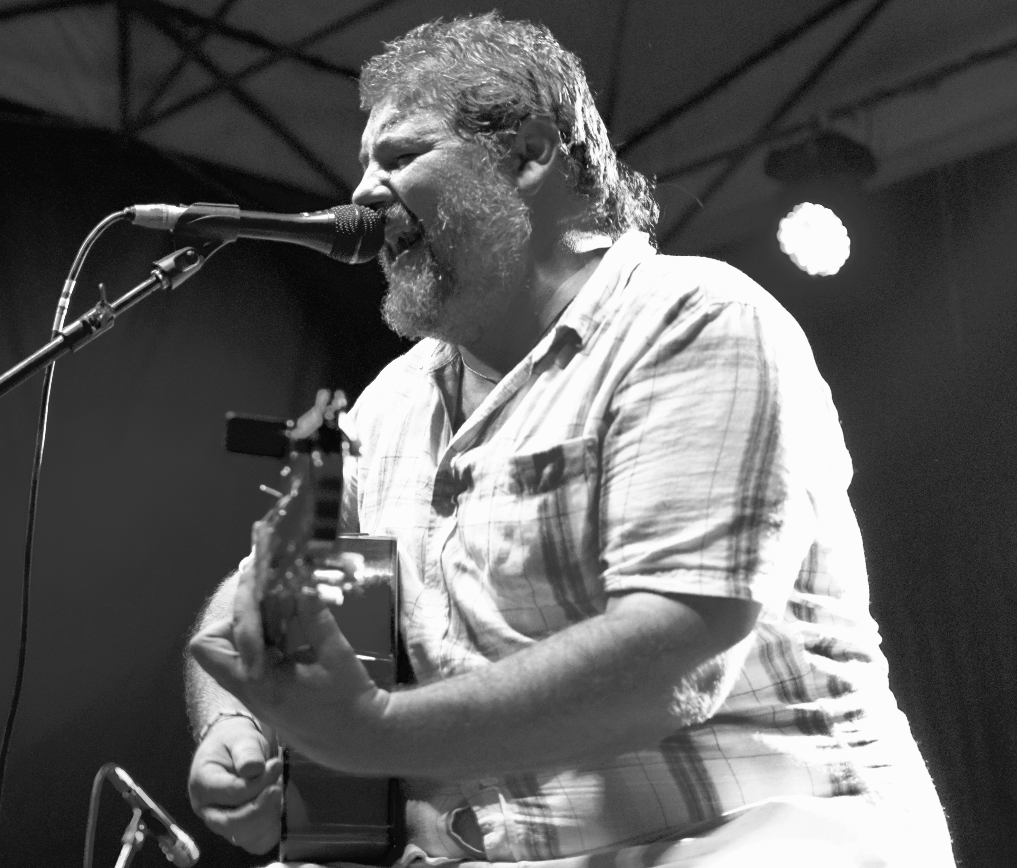 The Bulgarian film director and musician Dimitar Taralezhkov.